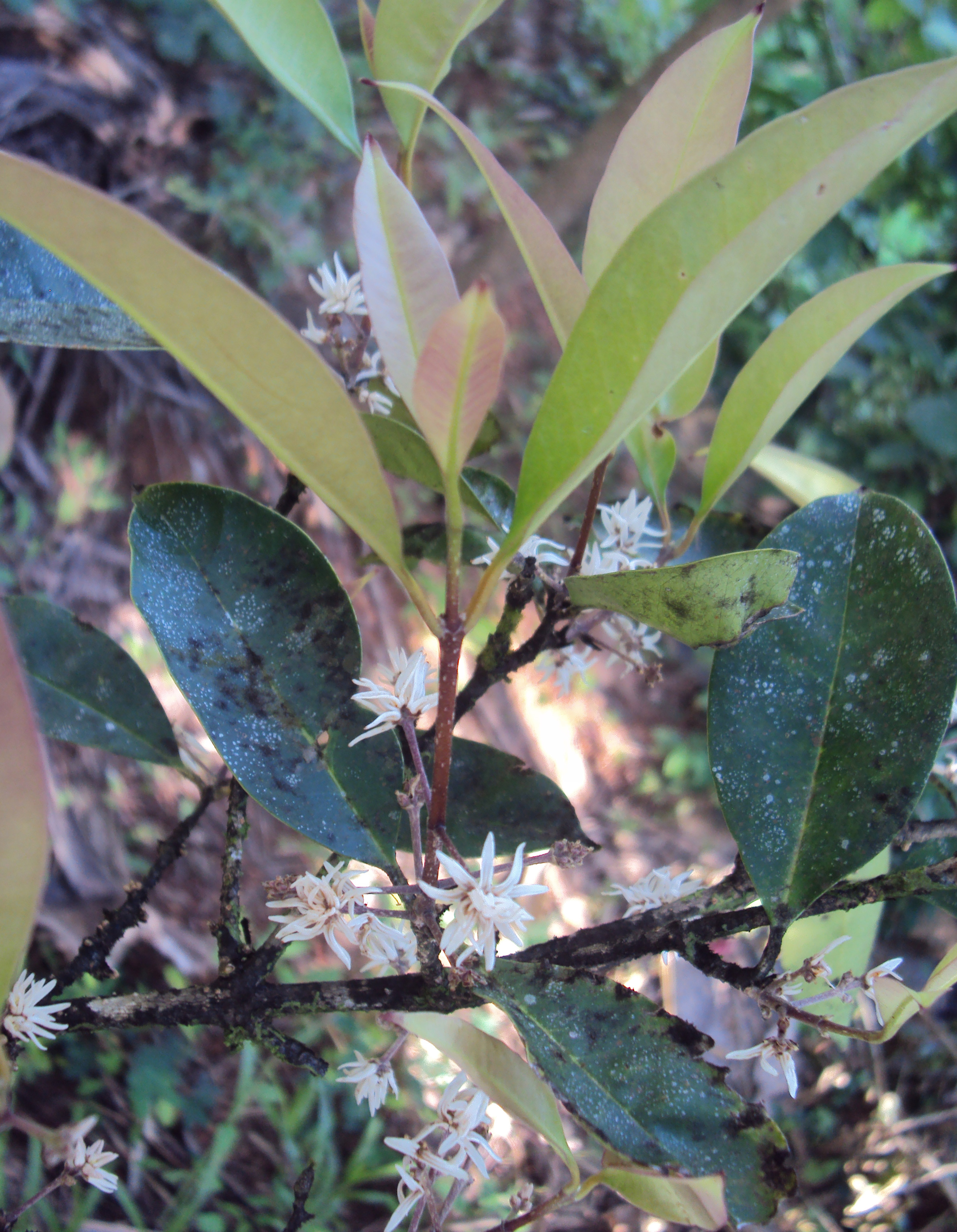 Chionanthus mala-elengi flowers